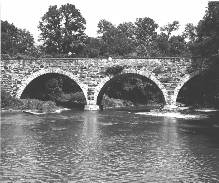 Side of the Frantz's Bridge, which carried Legislative Route 39060 over Jordan Creek (Pennsylvania) near Deanville in Lowhill Township, Lehigh County, Pennsylvania, United States. Built in 1887, this stone arch bridge is listed on the National Register of Historic Places.